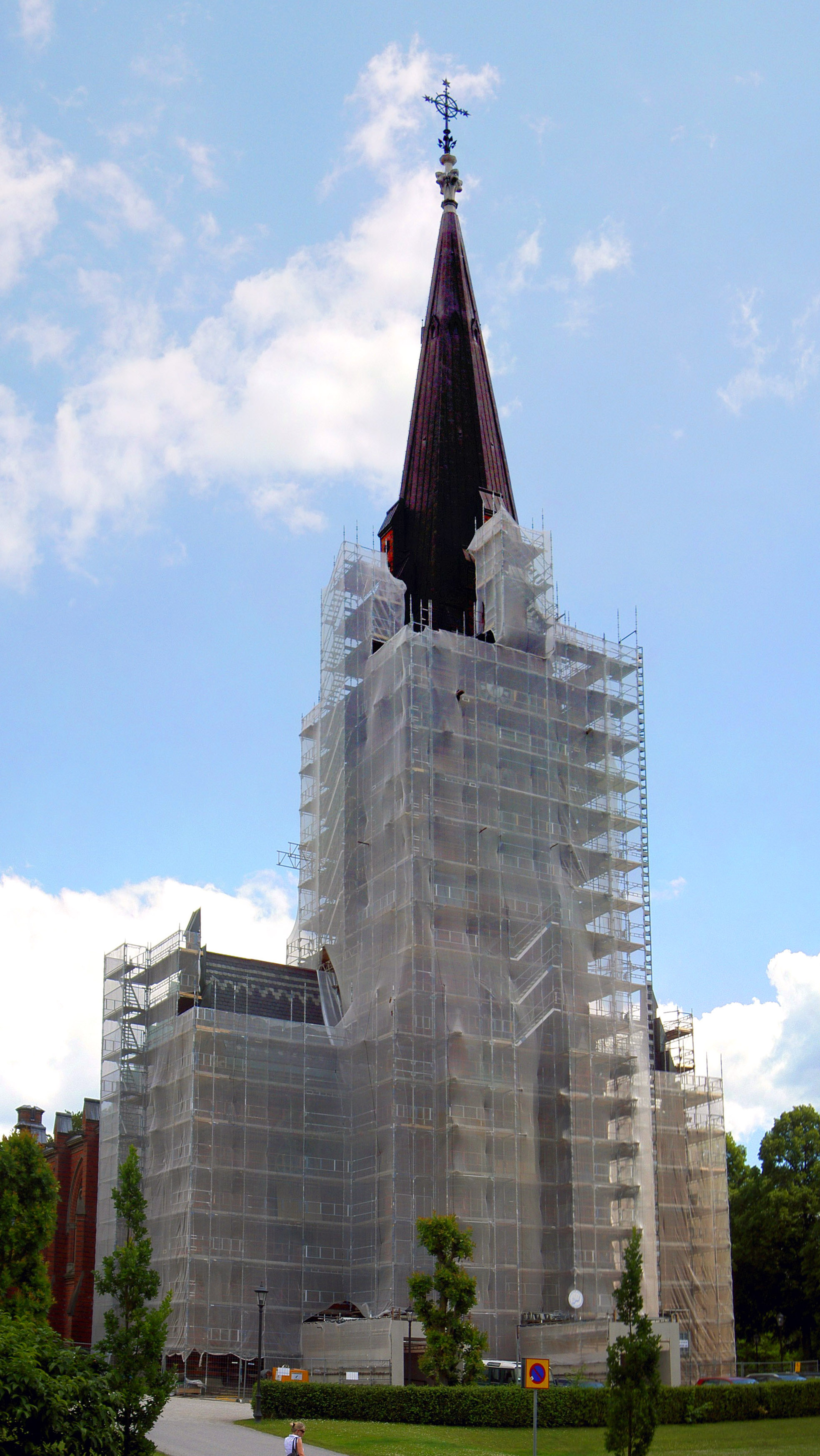 Allhelgonakyrkan (All Saints' Church) in Lund, Sweden, being renovated in June 2009